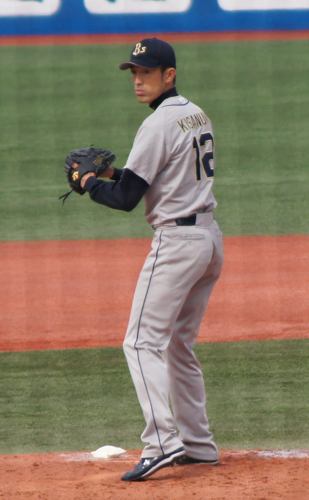 Hiroshi Kisanuki, pitcher of the Orix Buffaloes, at Meiji Jingu Stadium.